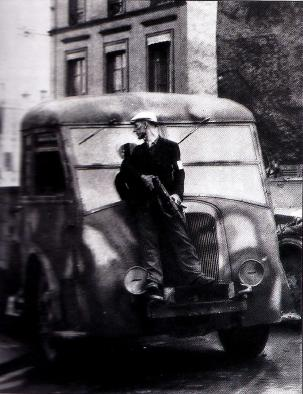 Member of the FFI (French Forces of the Interior), hiding behind a truck, during Battle for Paris (August 1944)